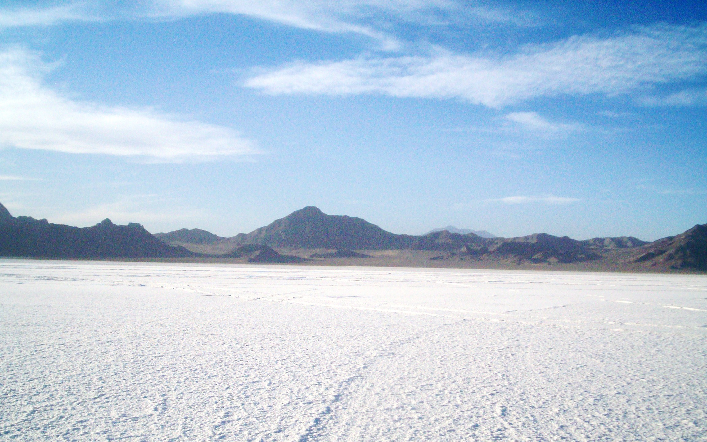 Bonneville Salt Flats near Wendover, Utah by David Jolley 2007.